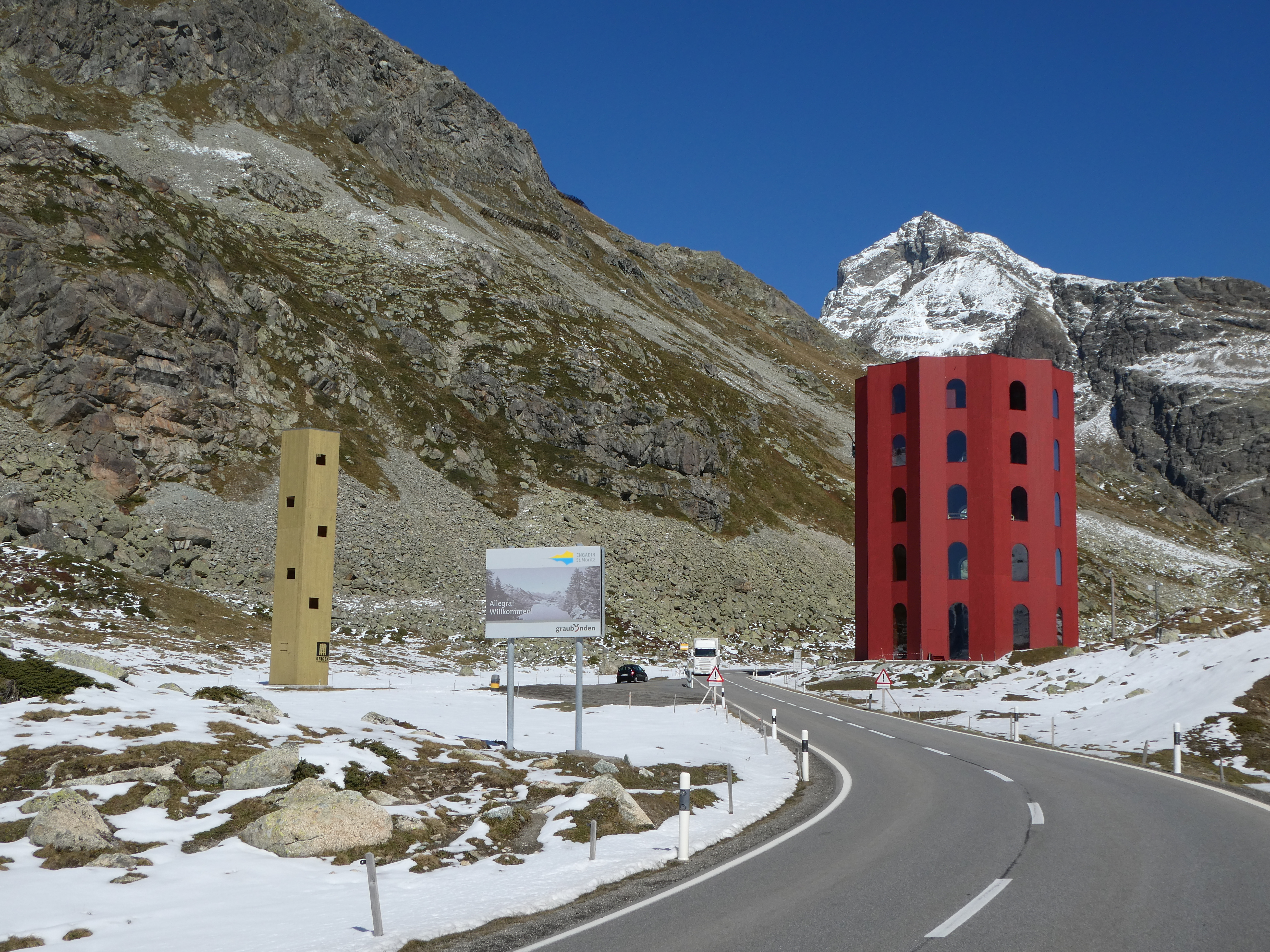 Juliertheater, House of theater of Origen Festival Cultural on Julierpass (Surses/Silvaplana, Grison, Switzerland)